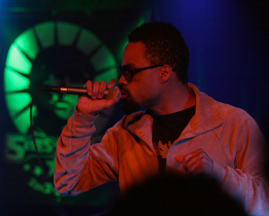 Bilal performing in Gellert, Budapest